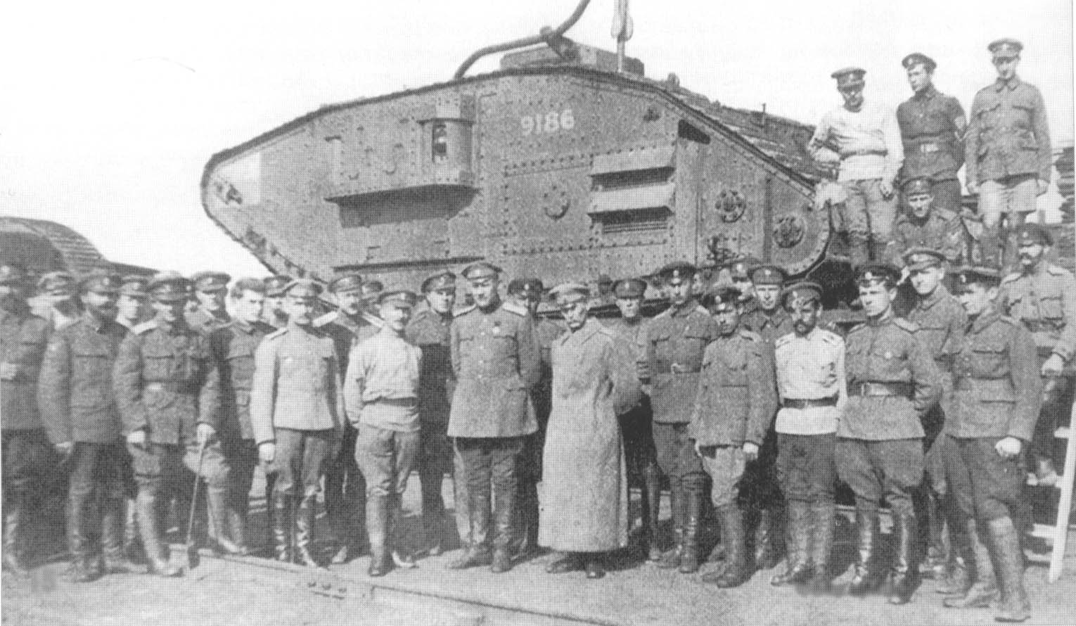 Don Army troops stand next to a Mark V tank, 1919. In the center of the picture is Major General Vladimir Sidorin.